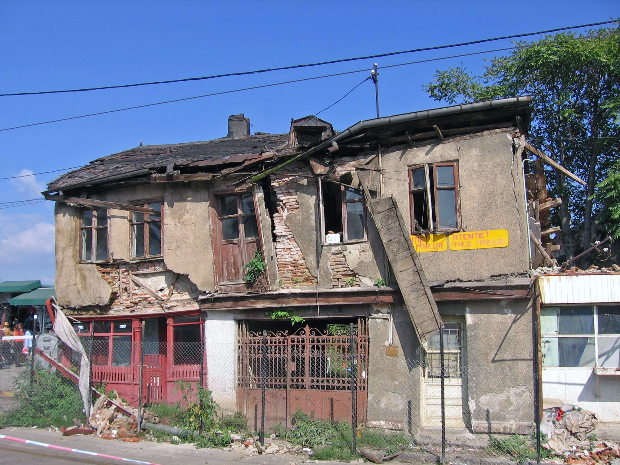 House and shop of Ilie Lumanararu (today demolished, see [2])